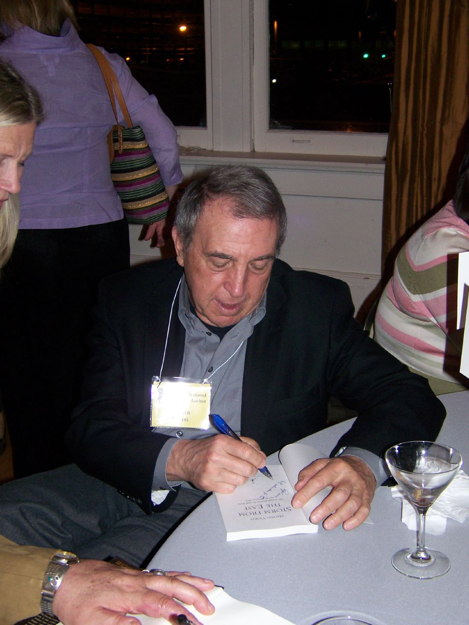 Milton Viorst. Pictures from the Arkansas Literacy Festival's Martini Reception with the Authors. The event was part of the 2007 Festival and held at the Junior League of Little Rock Headquarters on April 20, 2007.